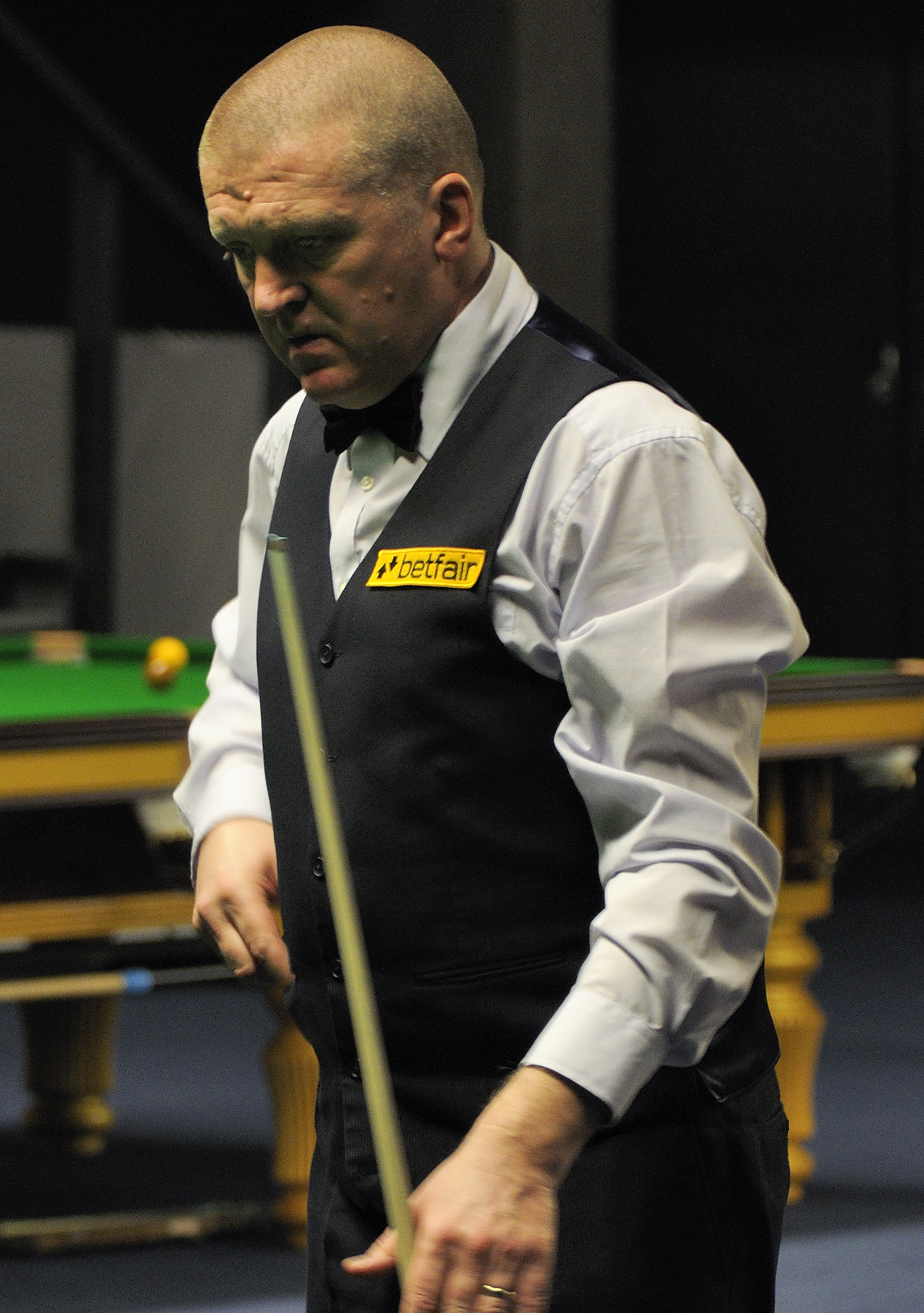 Picture taken in Berlin during the Snooker German Masters in 2013. Dave Harold.